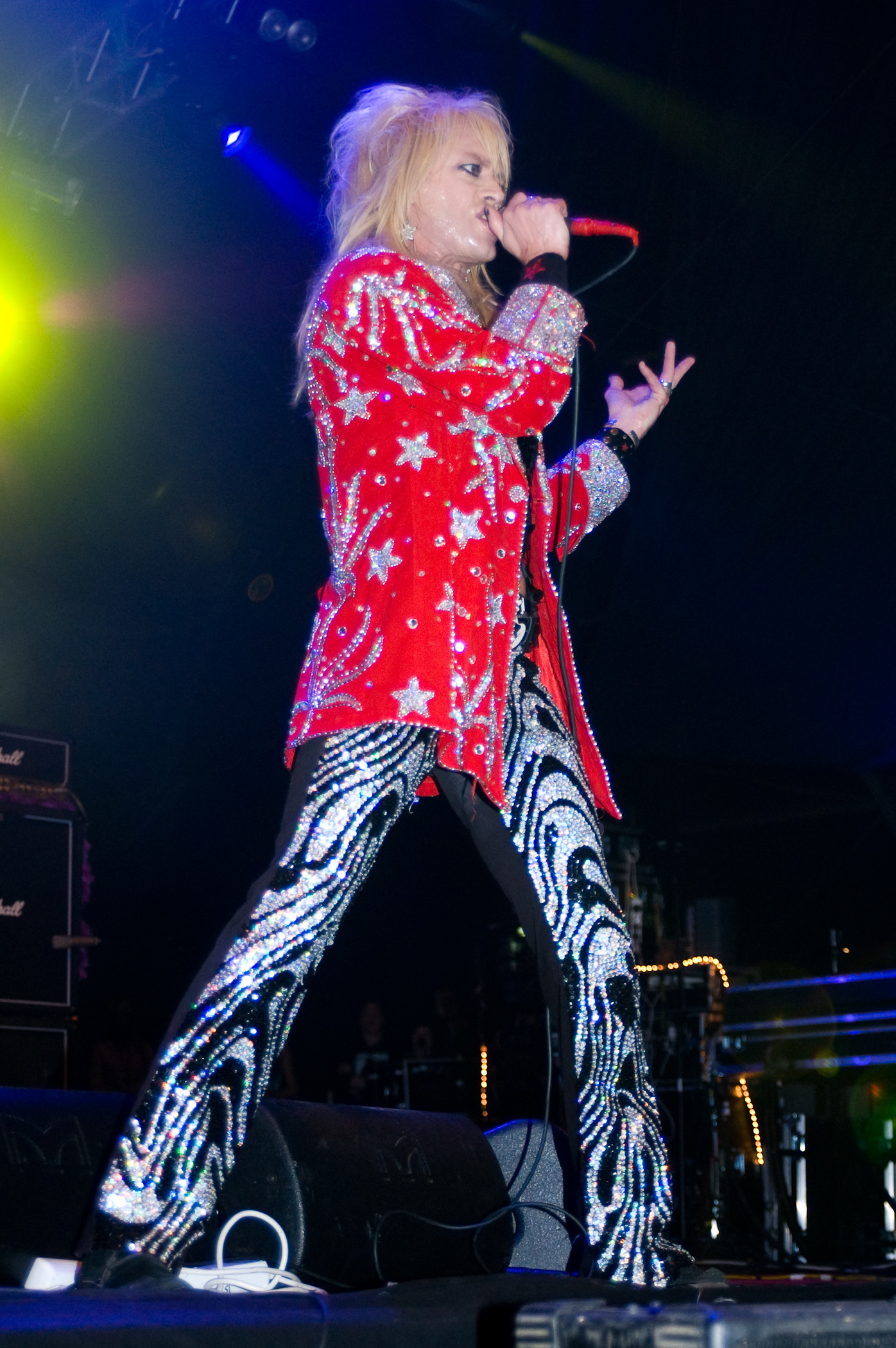 Vocalist Michael Monroe of Hanoi Rocks performing at the Ilosaarirock festival on the 11th of July 2008 in Joensuu, Finland.